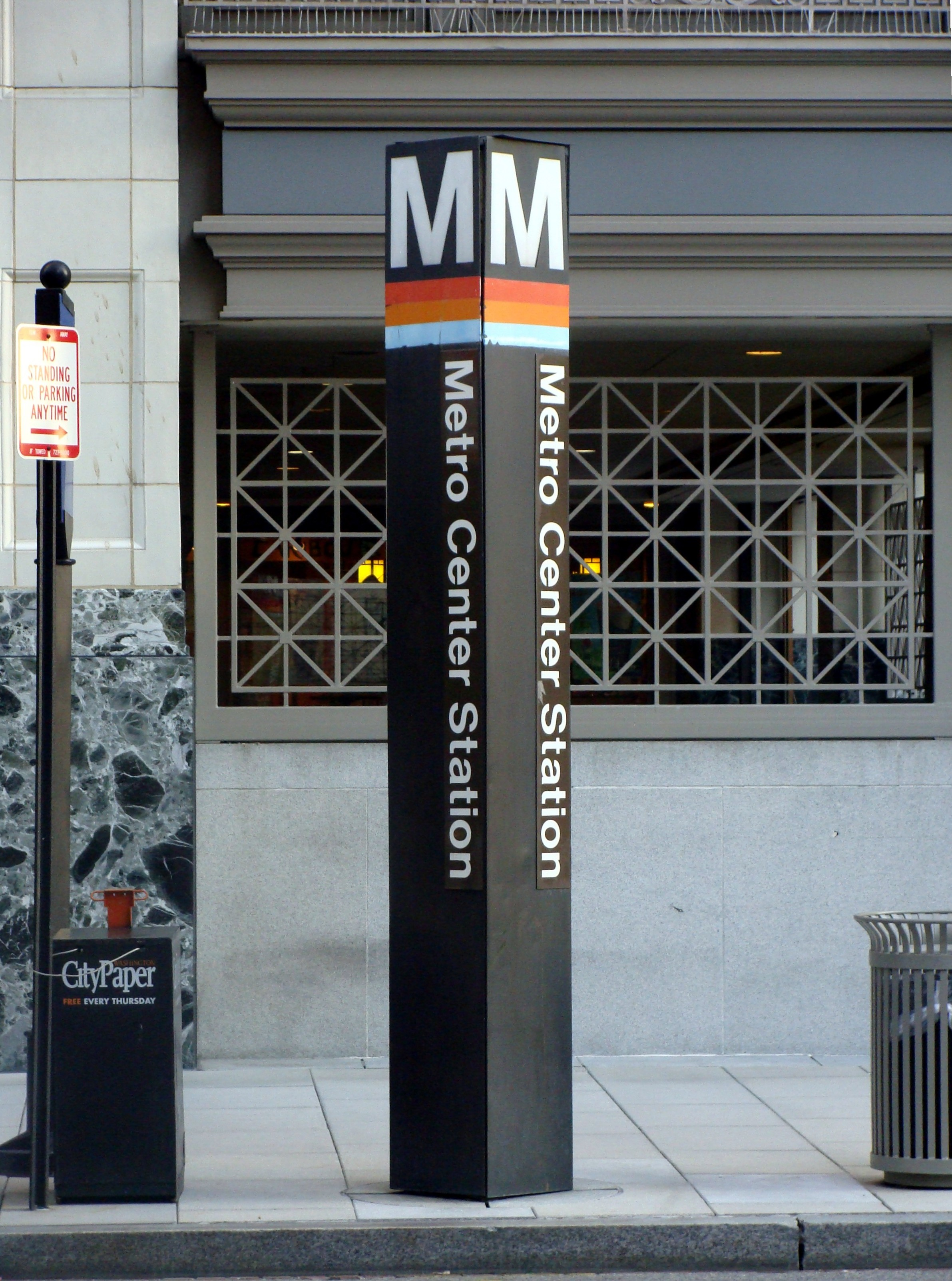 The station entrance pylon for the Washington Metro station Metro Center.